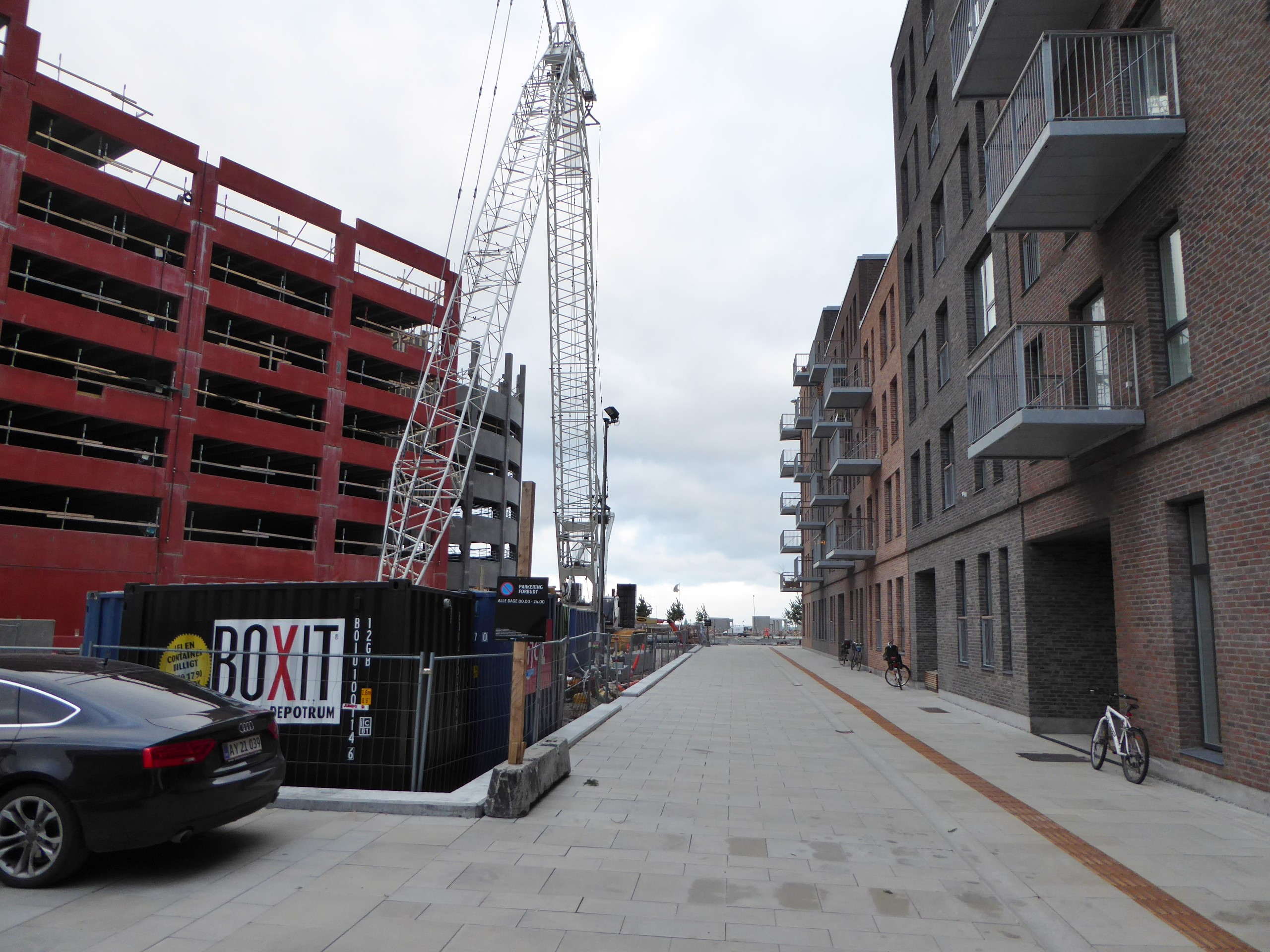 The square Sankt Petersborg Plads in Nordhavn in Copenhagen. At the left the car park Den røde tråd and at the right the apartment building Harbour Park.